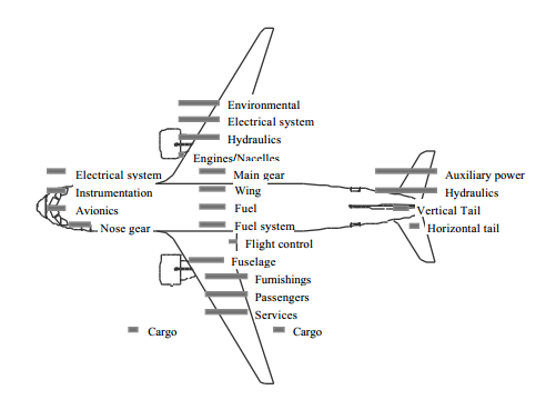 Transport aircraft component and systems cg range